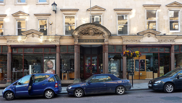 Detail of 7-14 Milsom Street, Bath